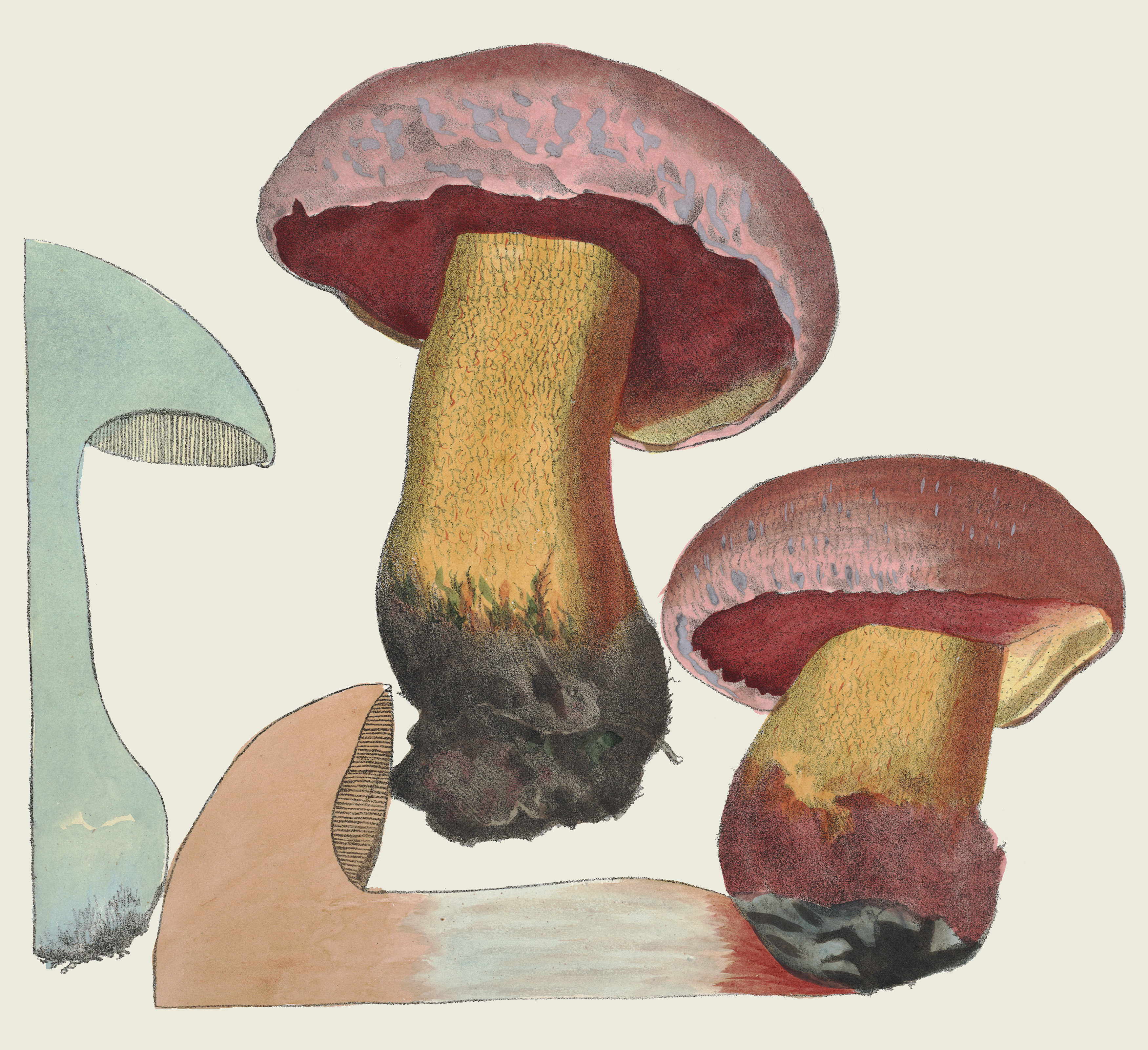 Boletus rhodoxanthus, painted by František Šír, published in mykologische Hefte Taf. 37 by Julius Vincenc Krombholz; Naturgetreue Abbildungen und Beschreibungen der essbaren, schädlichen und verdächtigen Schwämme (Praga, 1831-1846)